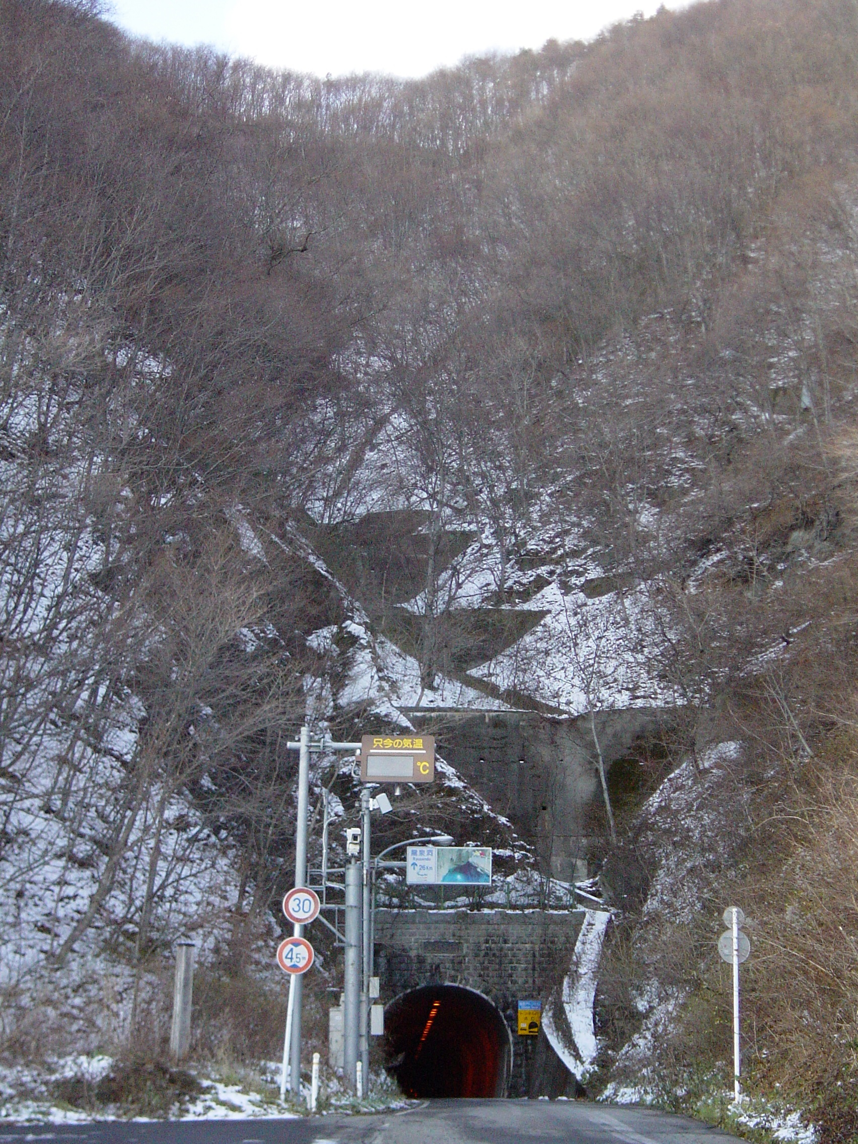 Oshikado Pass and Oshikado Tunnel on Japanese National Route 340, seen from the Miyako side